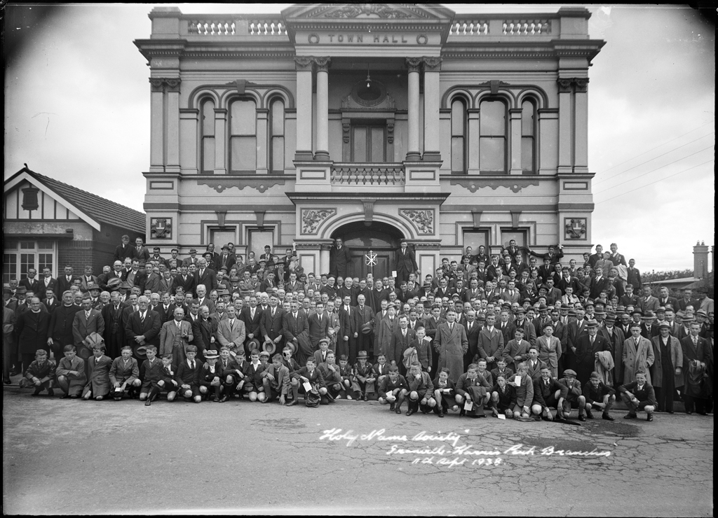 Format: Glass plate negative. Repository: Thomas Lennon Photographic Collection, Powerhouse Museum Part Of: Powerhouse Museum Collection General information about the Powerhouse Museum Collection is available at Persistent URL